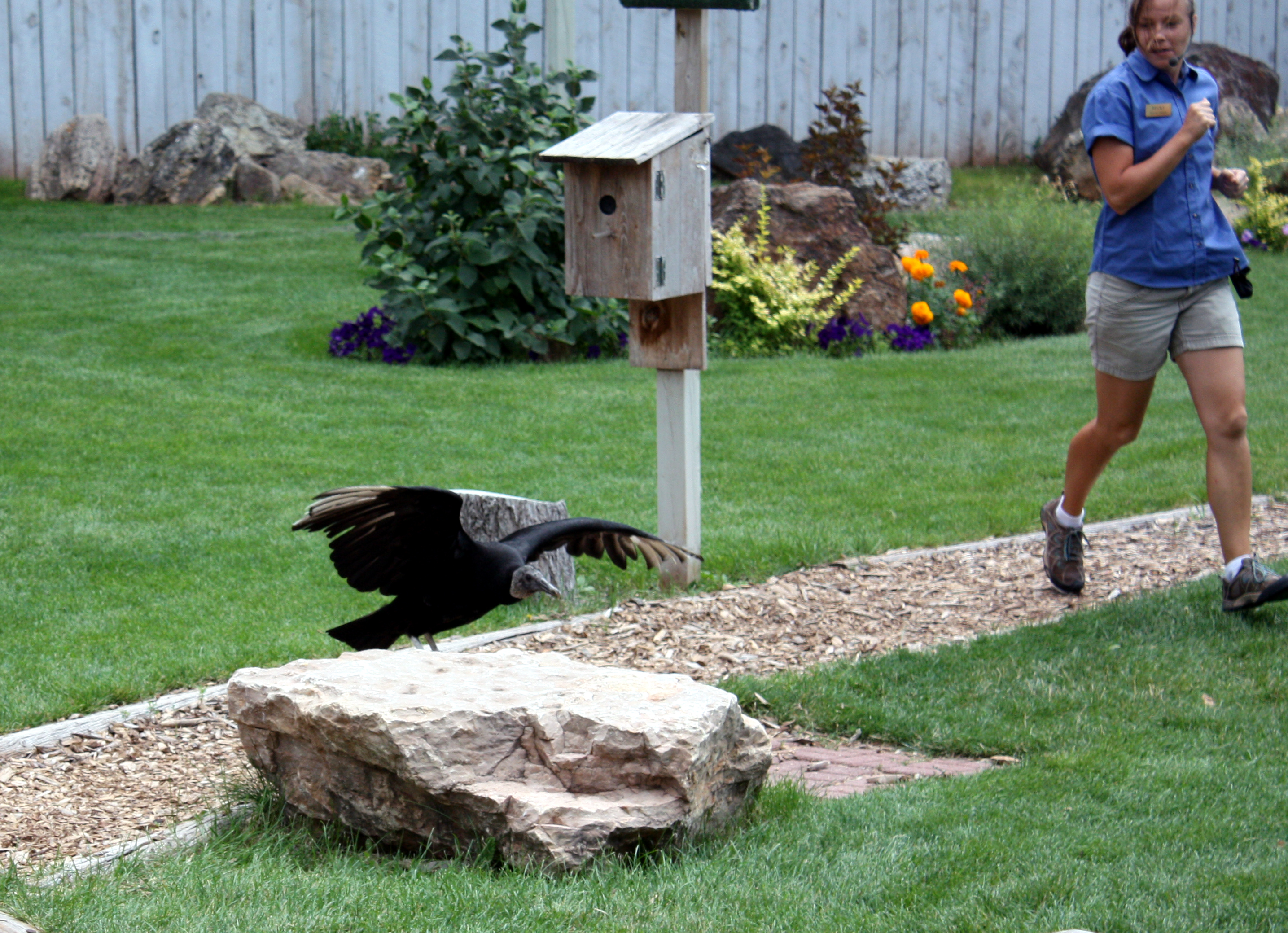 Vulture during bird show at Reptile Gardens, South Dakota